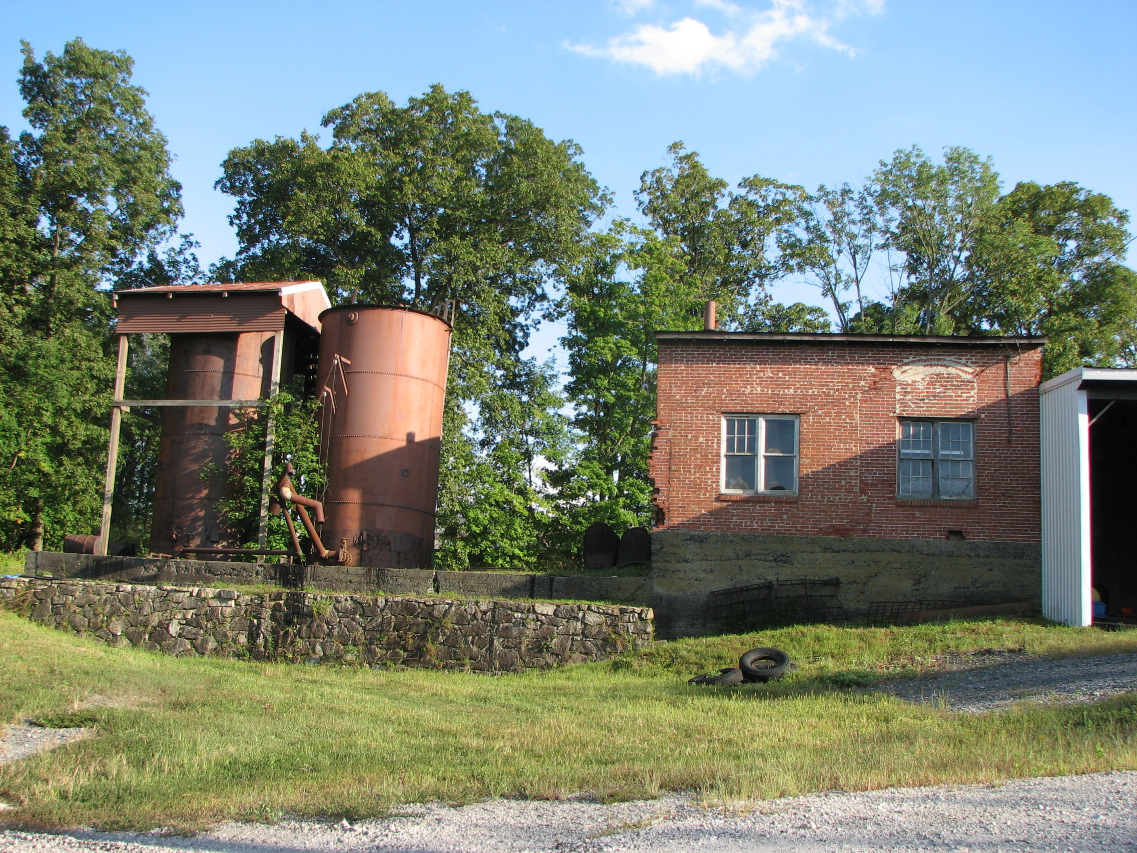 The former United States Graphite Company's processing plant at Byers, Pennsylvania. The plants is part of the Byers Station Historic District, on the National Register of Historic Places in Upper Uwchlan Township, Chester County, Pennsylvania.